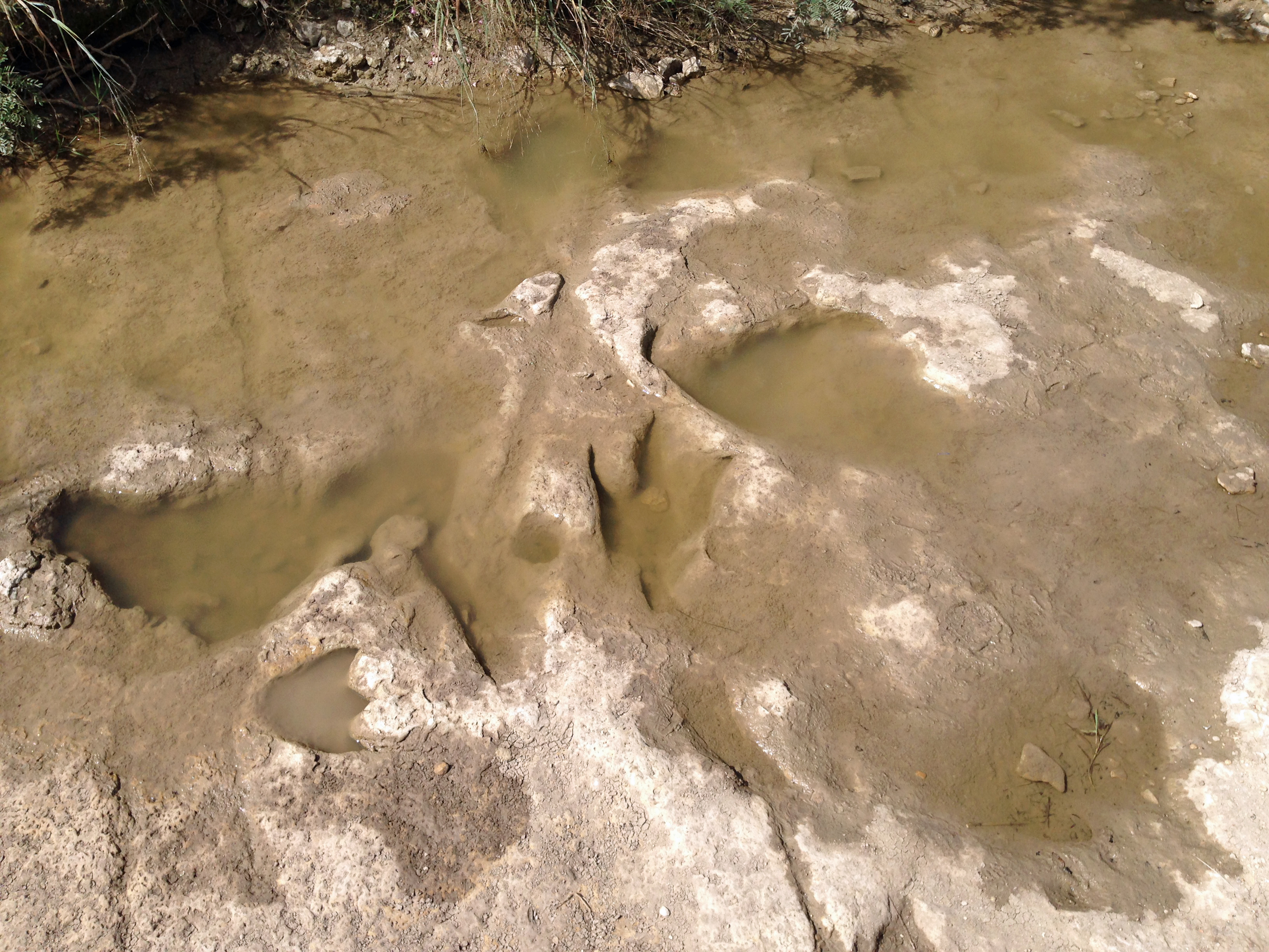 Dinosaur tracks in Dinosaur Valley State Park, Texas.